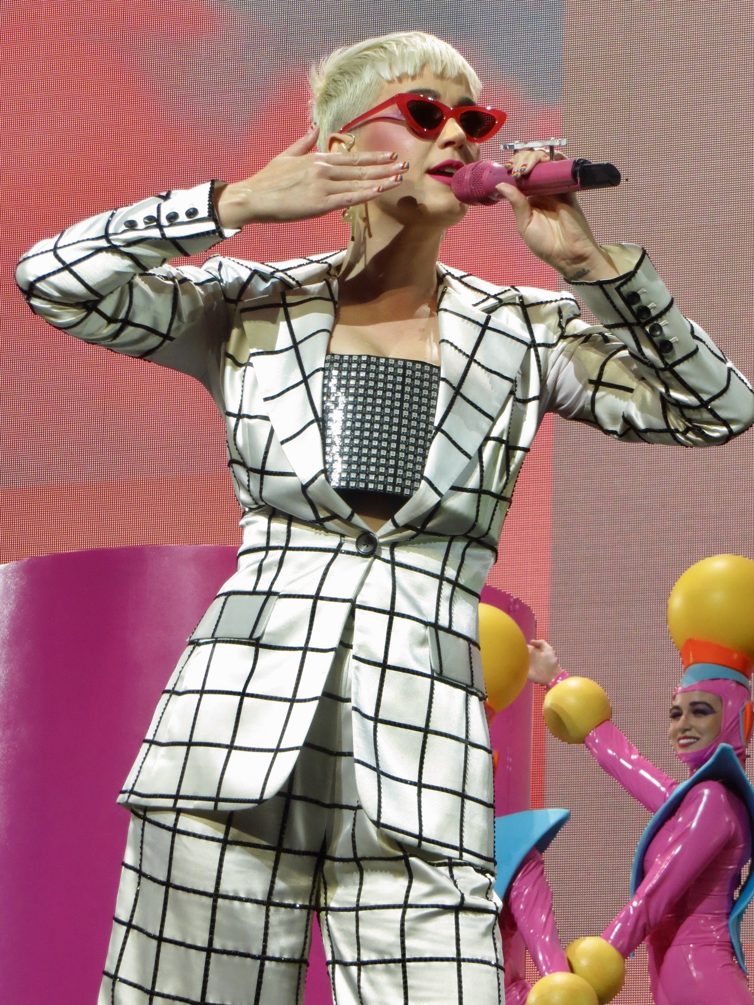 Katy Perry 3